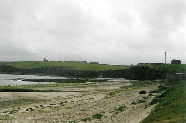 Scapa Beach, looking towards the reborn distillery. Looking west along Scapa Beach, the buildings on the ridge are the site of the former Scapa distillery, only a few miles south of Highland Park. Jeck Pirie reminds me it is once again in production